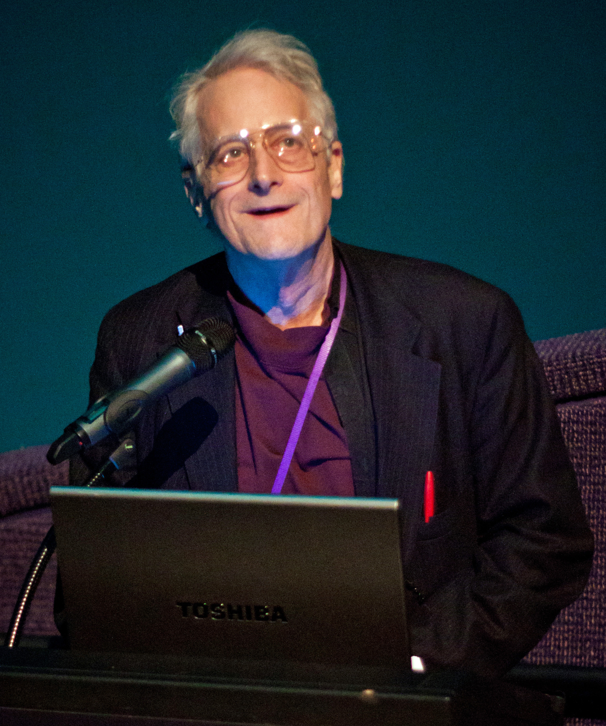 Ted Nelson gives a presentation on Project Xanadu for SuperHappyDevHouse at The Tech Museum of Innovation on February 19th, 2011.